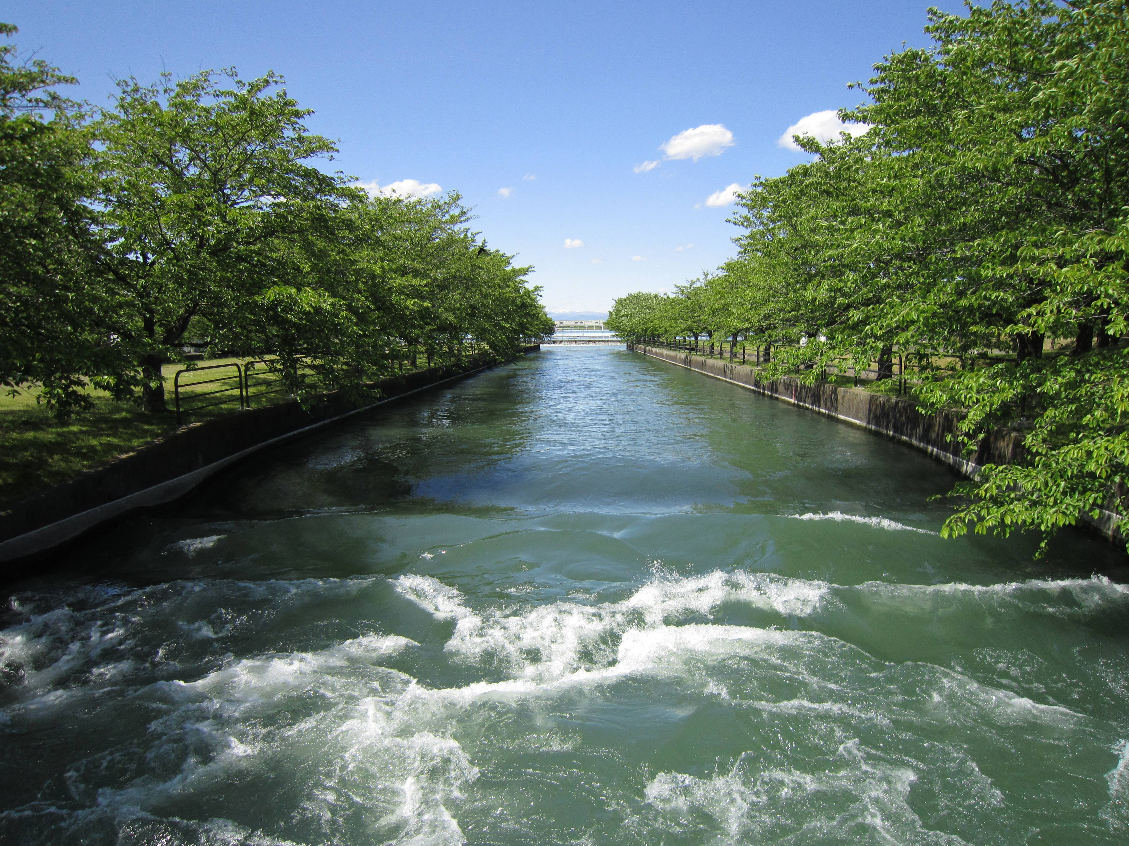 Tone Diversion Weir Musashi Canal.